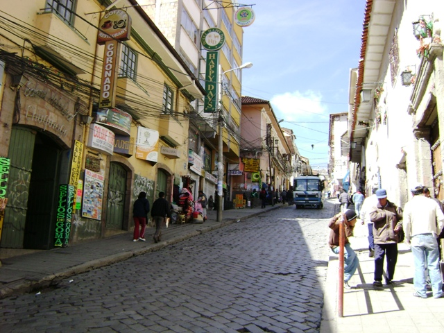 Sagarnaga Street, La Paz (Bolivia).